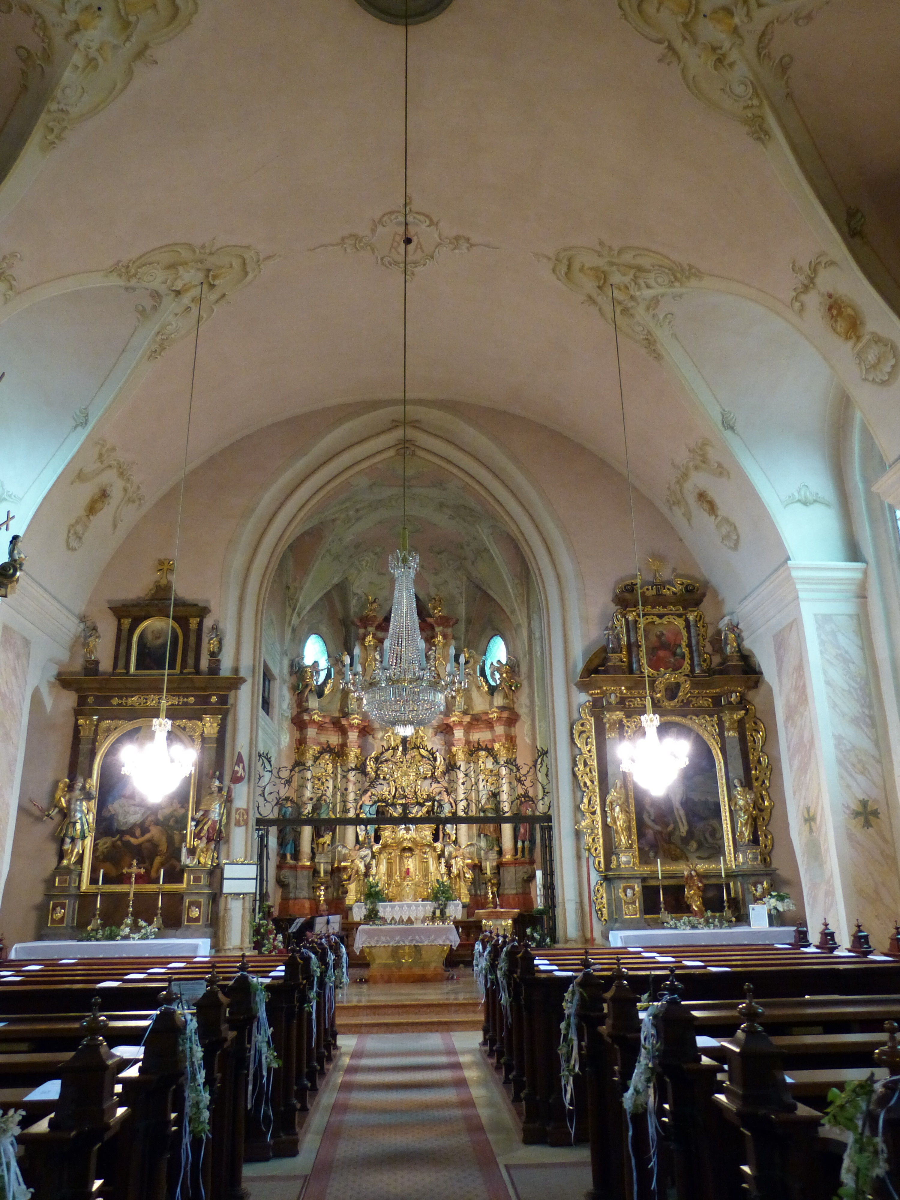 Maria Scharten church ( Upper Austria ). Interior.